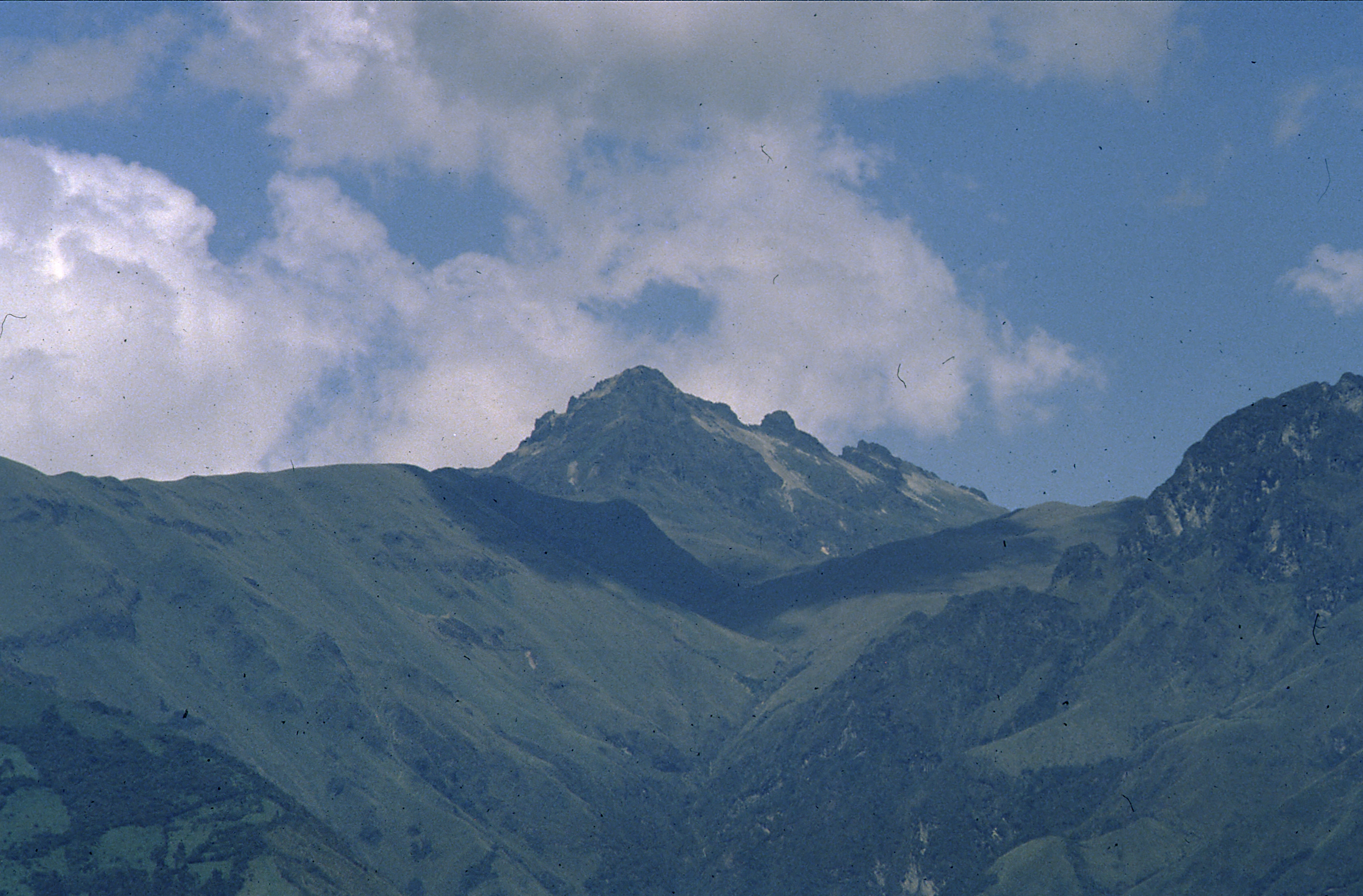 This photo has been scanned with a Reflecta DigitDia 6000 image scanner.